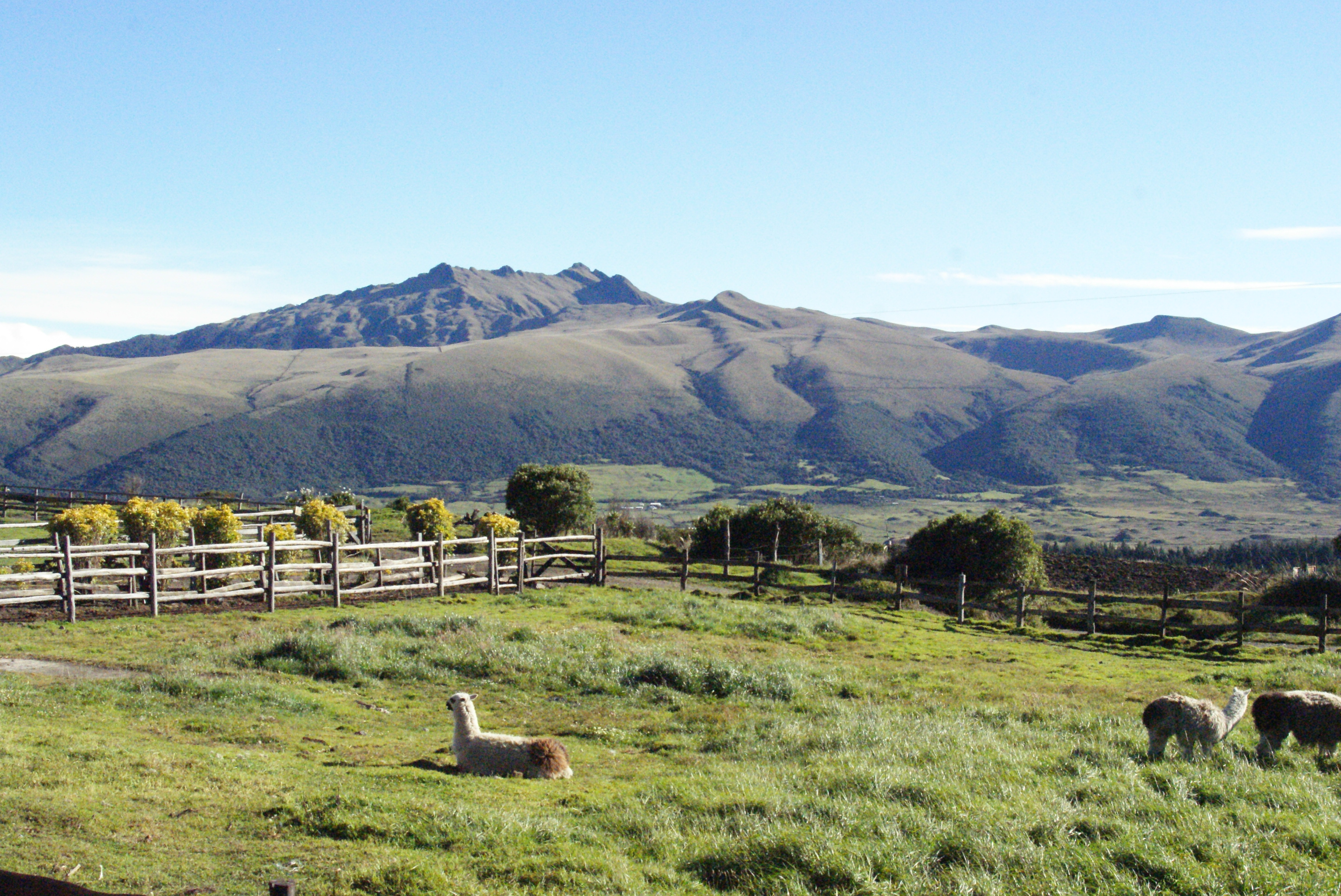 Alpaca at Hacienda El Porvenir, near Cotopaxi, Eduador (Bolivar, Ecuador)